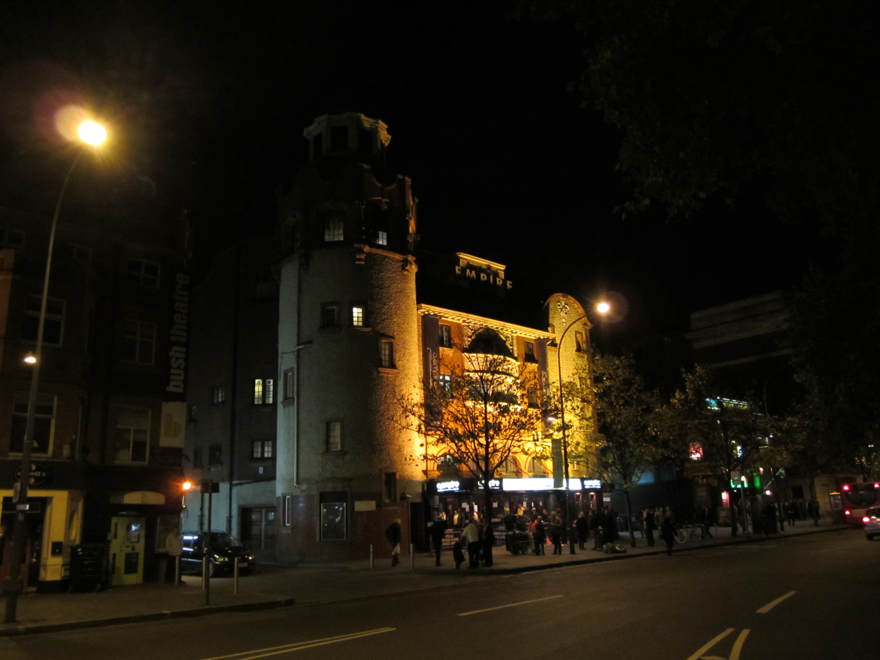 The O2 Shepherds Bush Empire at night